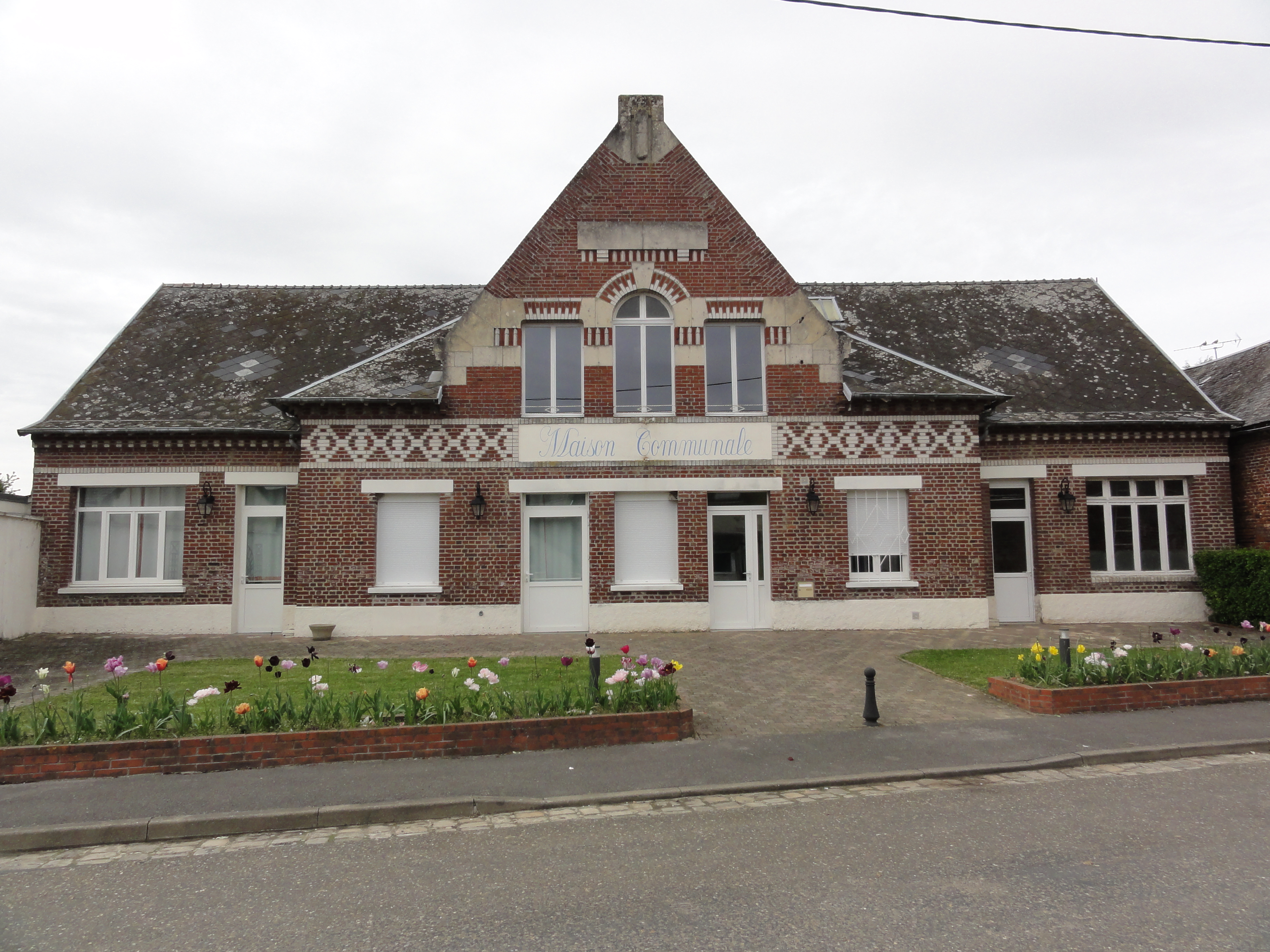 Nouvion-le-Comte (Aisne) maison communale (mairie)